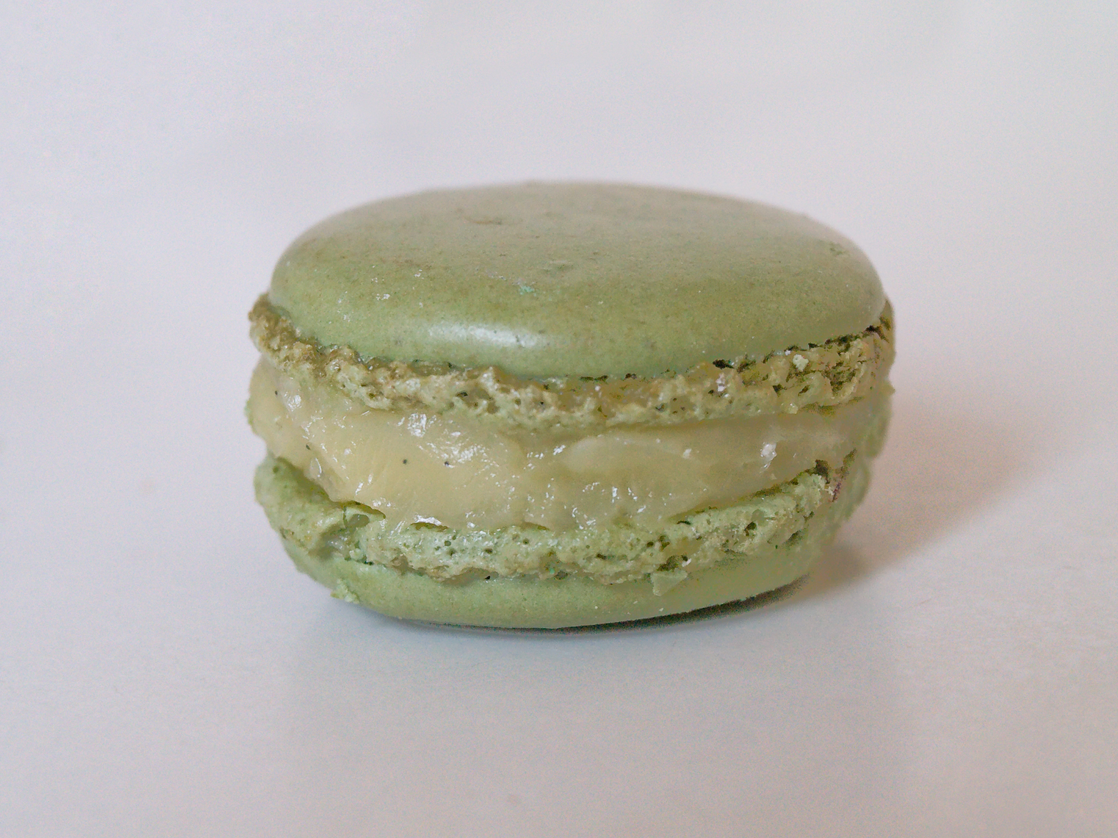 Macaron, a French pastry. This sandwich-like pastry made with two thin cookies and a cream between them exists in a wide variety of flavors. This actual piece is a Pierre Hermé's “Olive Oil and Vanilla” macaron.